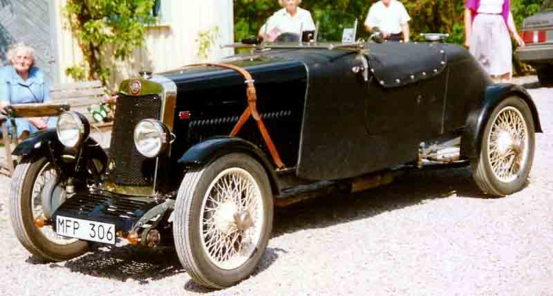 Lea-Francis Hyper 2-Seater Sports 1928